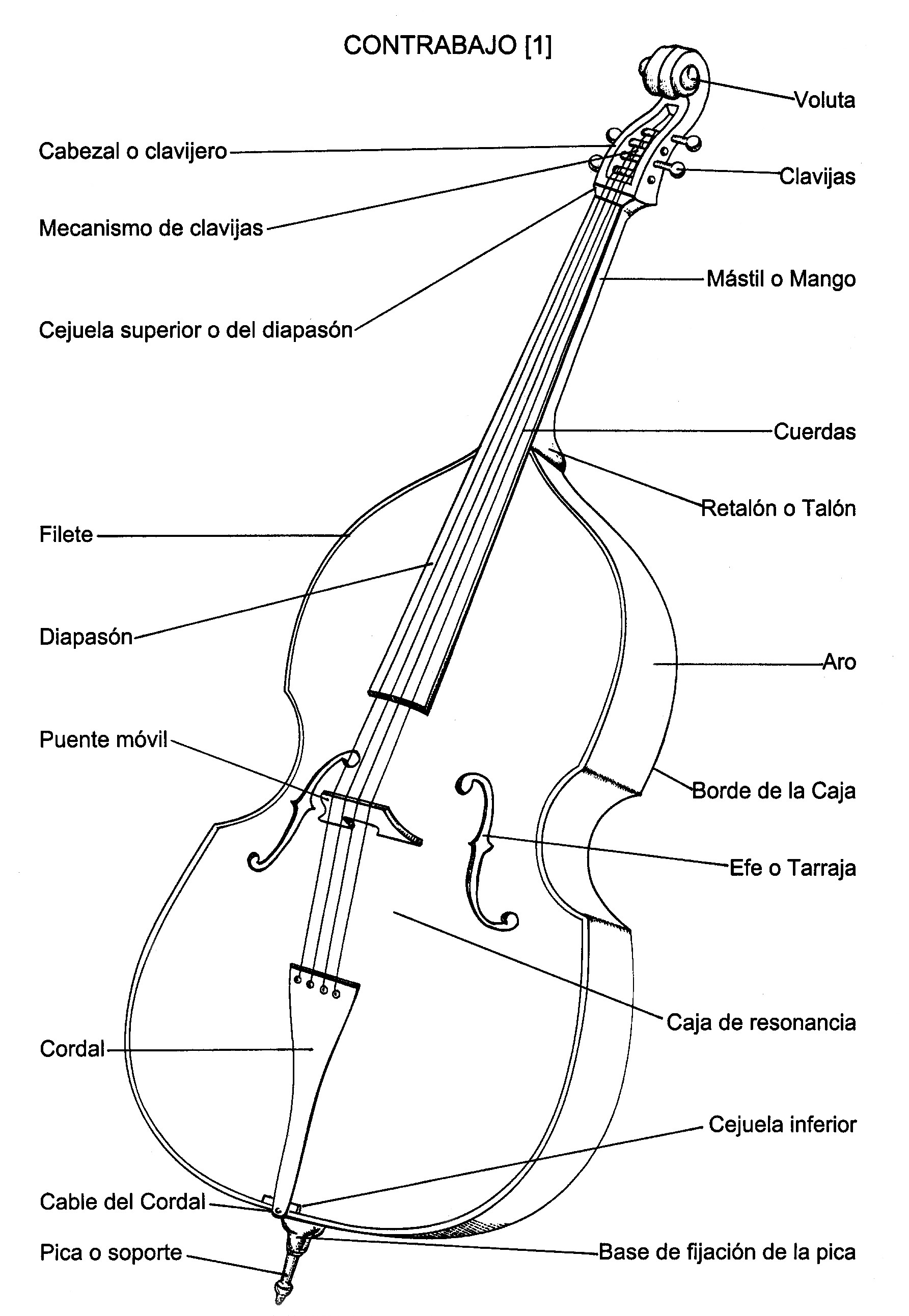 Partes contrabajo